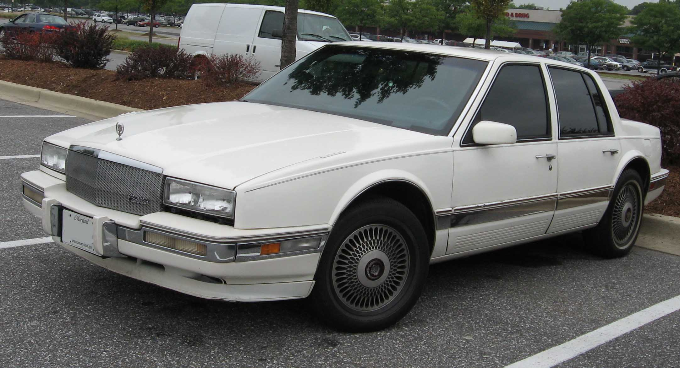 1986-1991 Cadillac Seville photographed in USA.